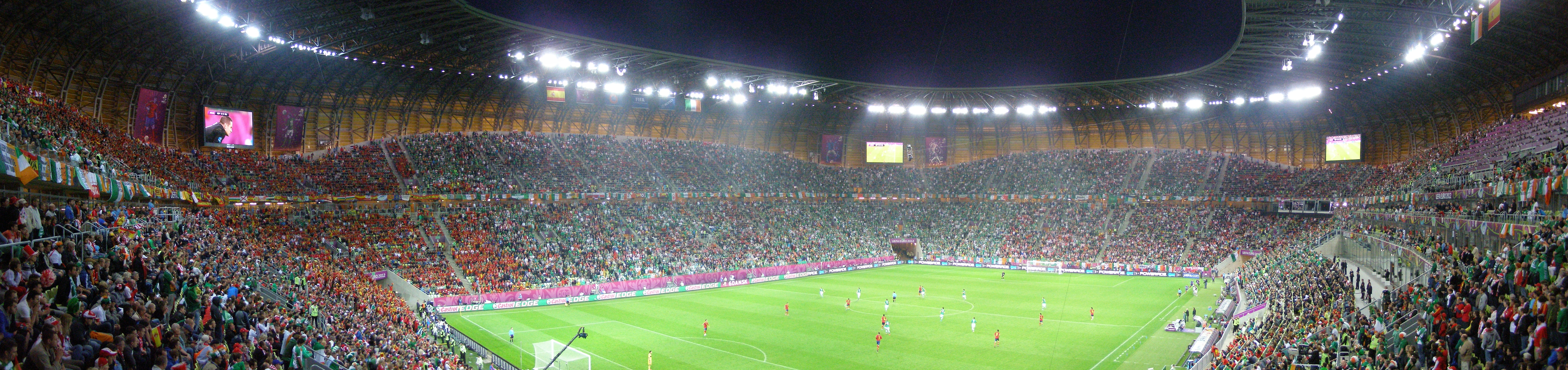 Gdańsk - PGE Arena - Euro 2012 - Group C match Spain - Rep. of Ireland